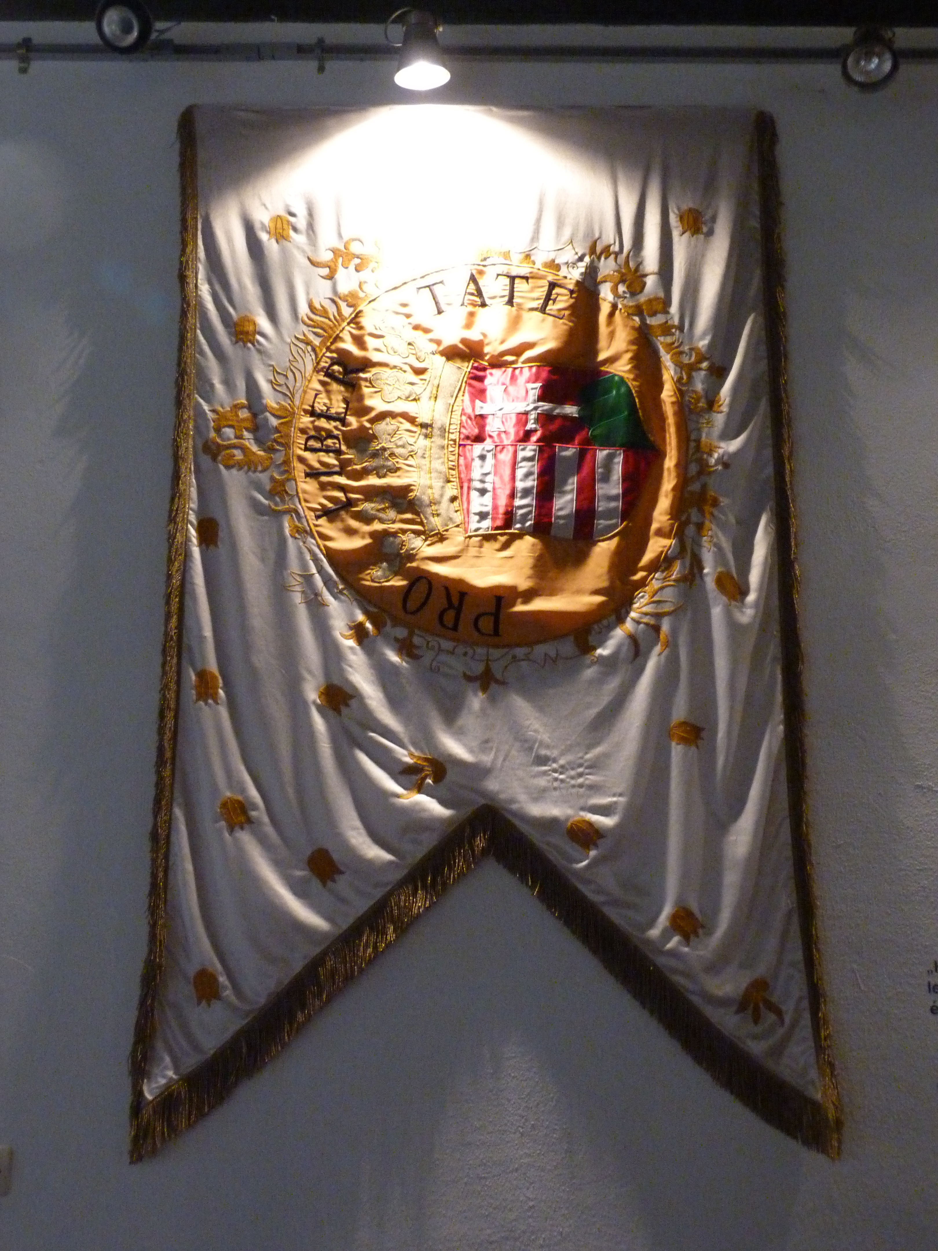 Live on the 25th of october, 2014. Rákóczi Museum, Tekirdağ, Turkey. ©© Derzsi Elekes Andor, Budapest, 2014, Published in the Metapolisz DVD line. You are authorised to use this vid under Creative Commons – even for commercial, for profit purposes. The vid must be attributed to Derzsi Elekes Andor. All of the photos and vids in the Metapolisz DVD line are under Creative Commons and can be used even for commercial – for profit – purposes. Recommended Citation Derzsi Elekes Andor: Metapolisz DVD line